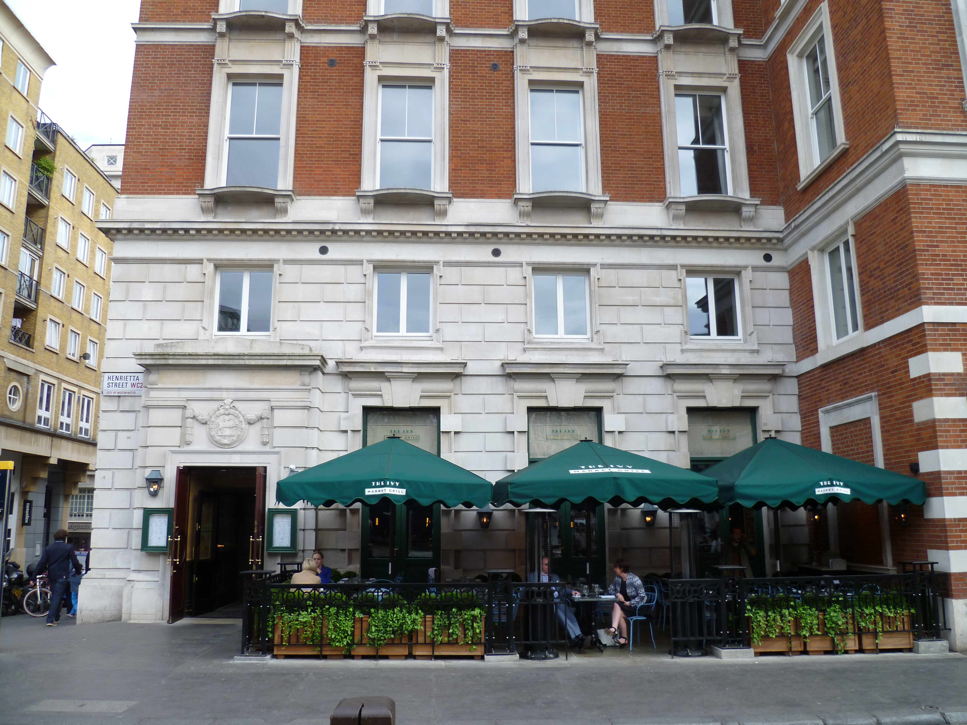 London